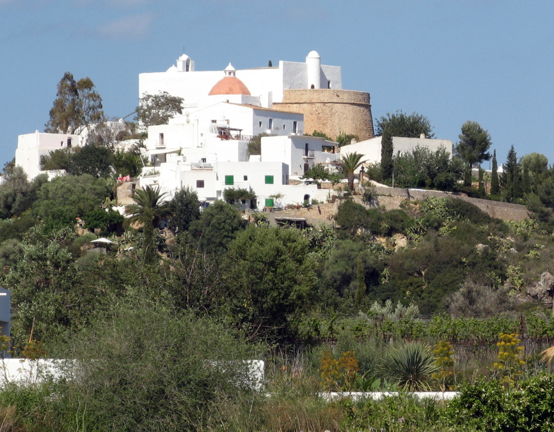 Puig de Missa. Former mosque, now a church above Santa Eularia.